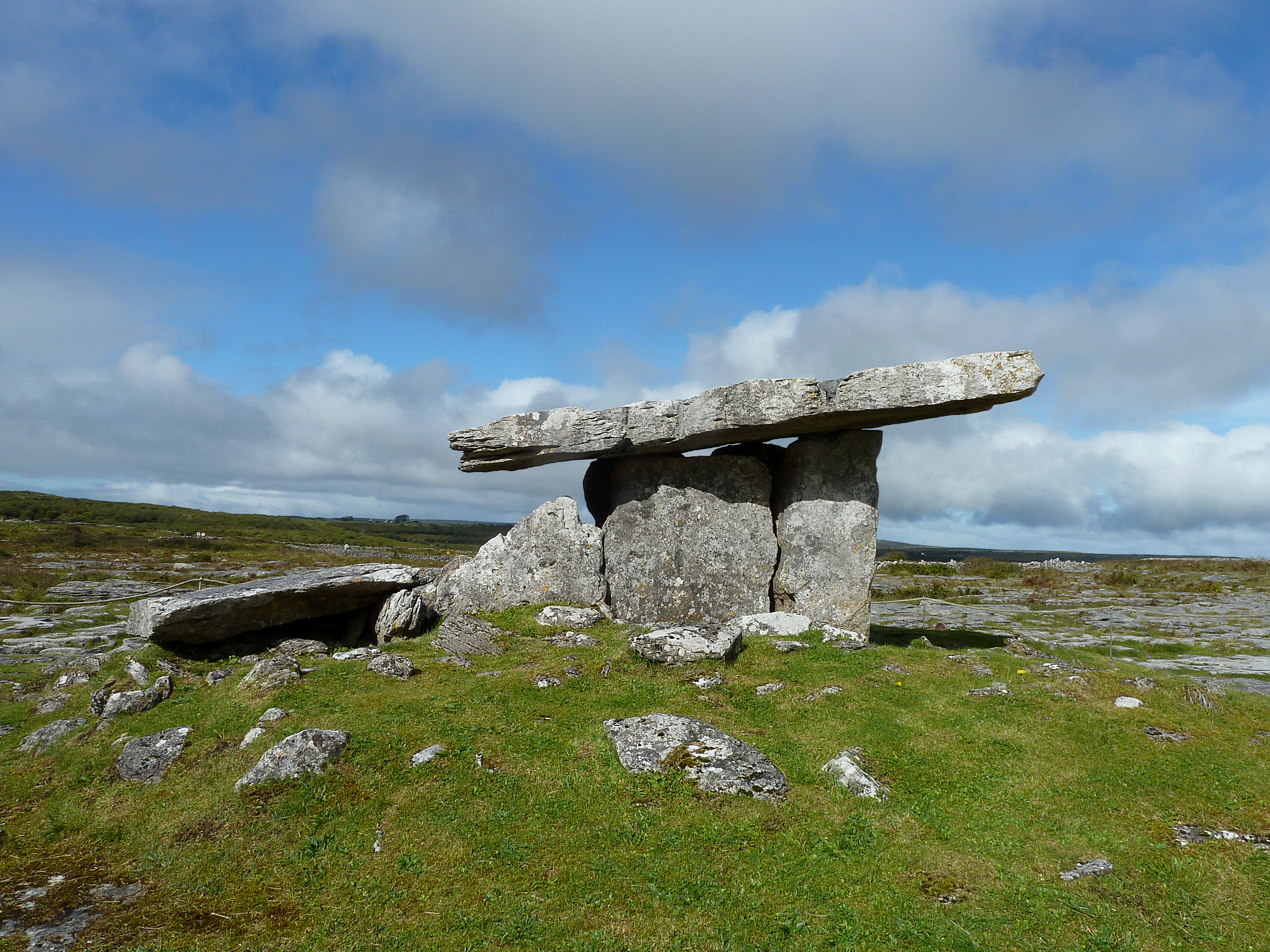 Poulnabrone Dolmen, The Burren, County Clare, Ireland